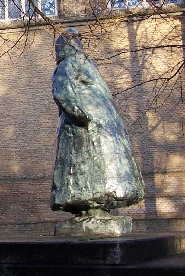 Statue of Queen Wilhelmina, in front of Paleis Noordeinde